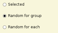 A set of three radio buttons.